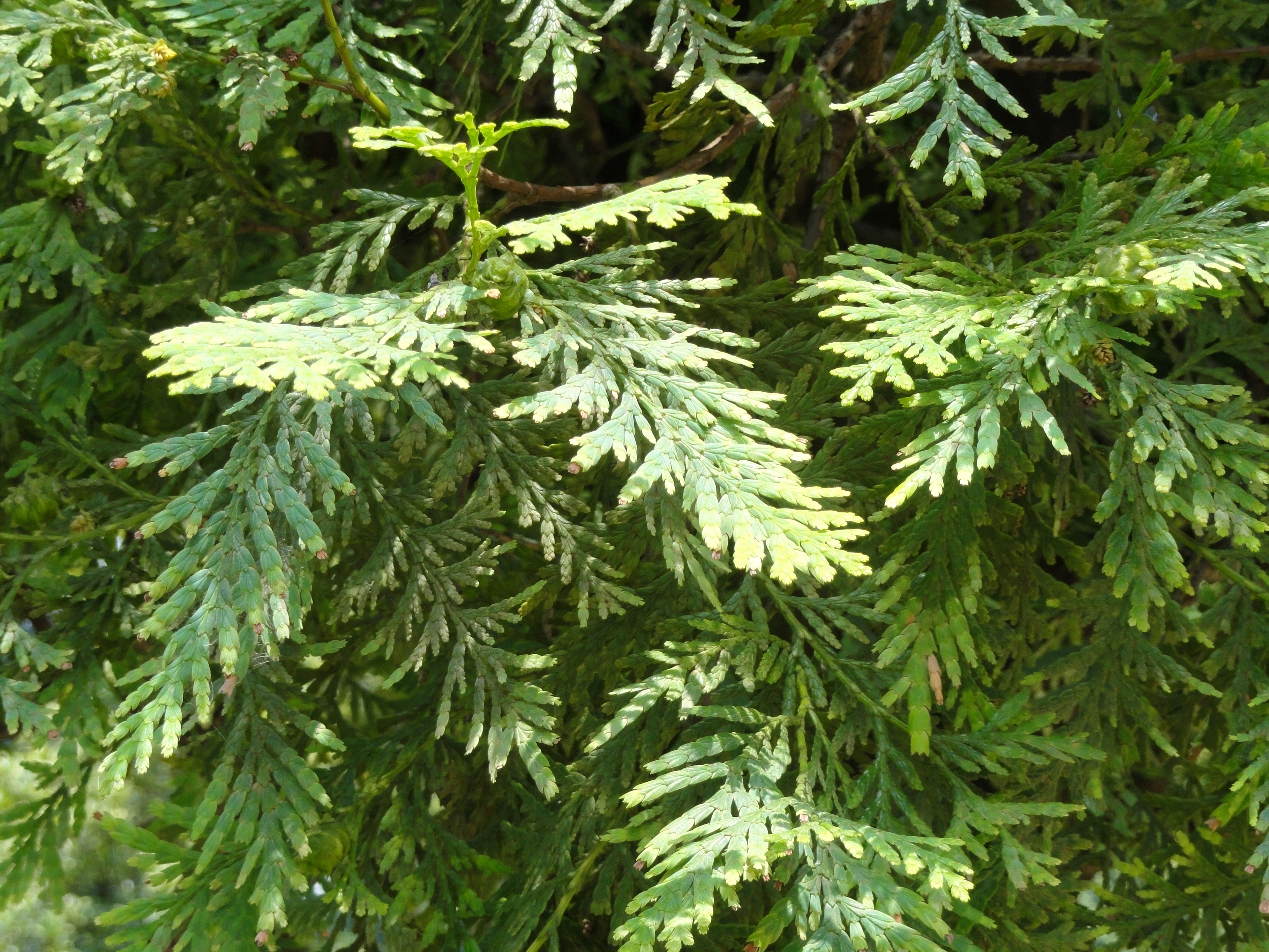 Chamaecyparis hodginsii (syn. Fokienia hodginsii). Plant specimen in the Kunming Botanical Garden, Kunming, Yunnan, China.